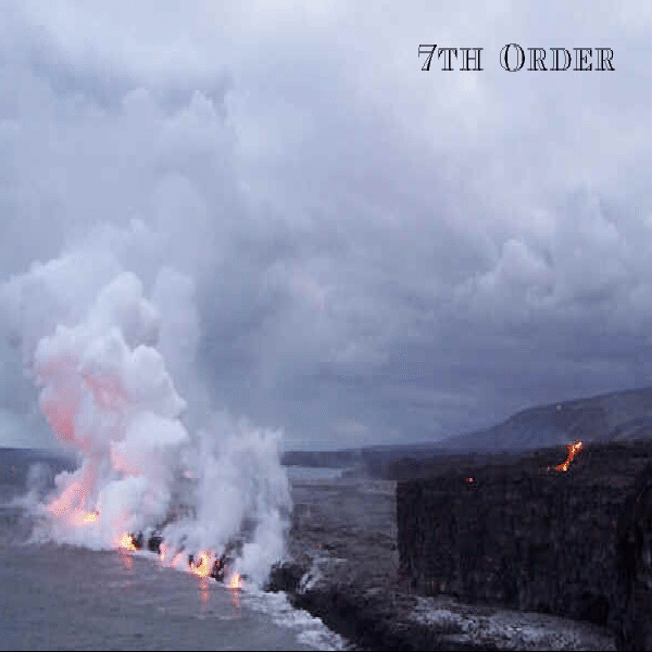 This is the cover of 7th Order's "The Lake of Memory" CD